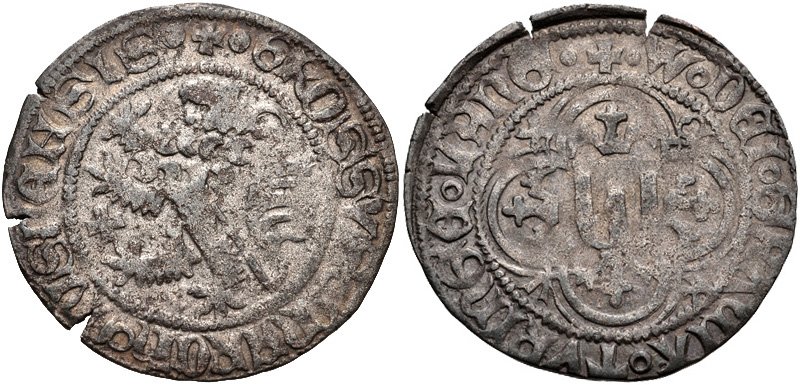 GERMANY, Sachsen-Markgrafschaft Meißen. Wilhelm III der Tapfere (the Brave). As Margrave of Meißen and Landgrave of Thüringen, 1428-1482. AR Groschen (26mm, 2.51 g, 10h). Shield within quadrilobe, with lis at each inner angle and C R V X at each outer angle / Lion rampant left; + to left. Saurma 4387. VF, toned.